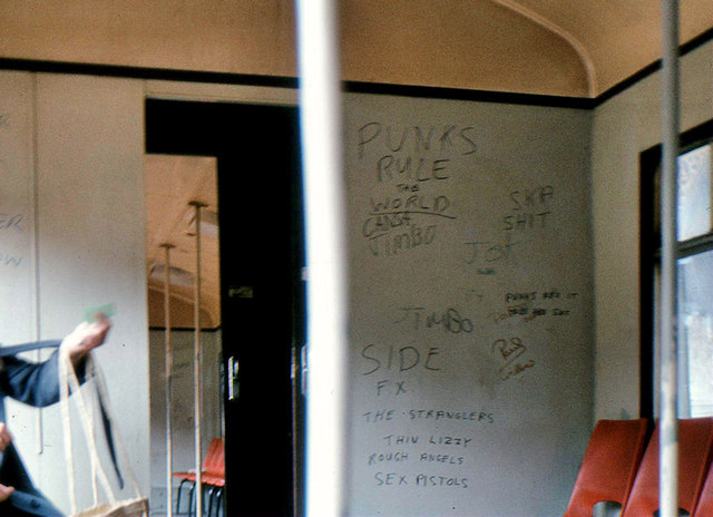 Push-pull train (interior), Drogheda